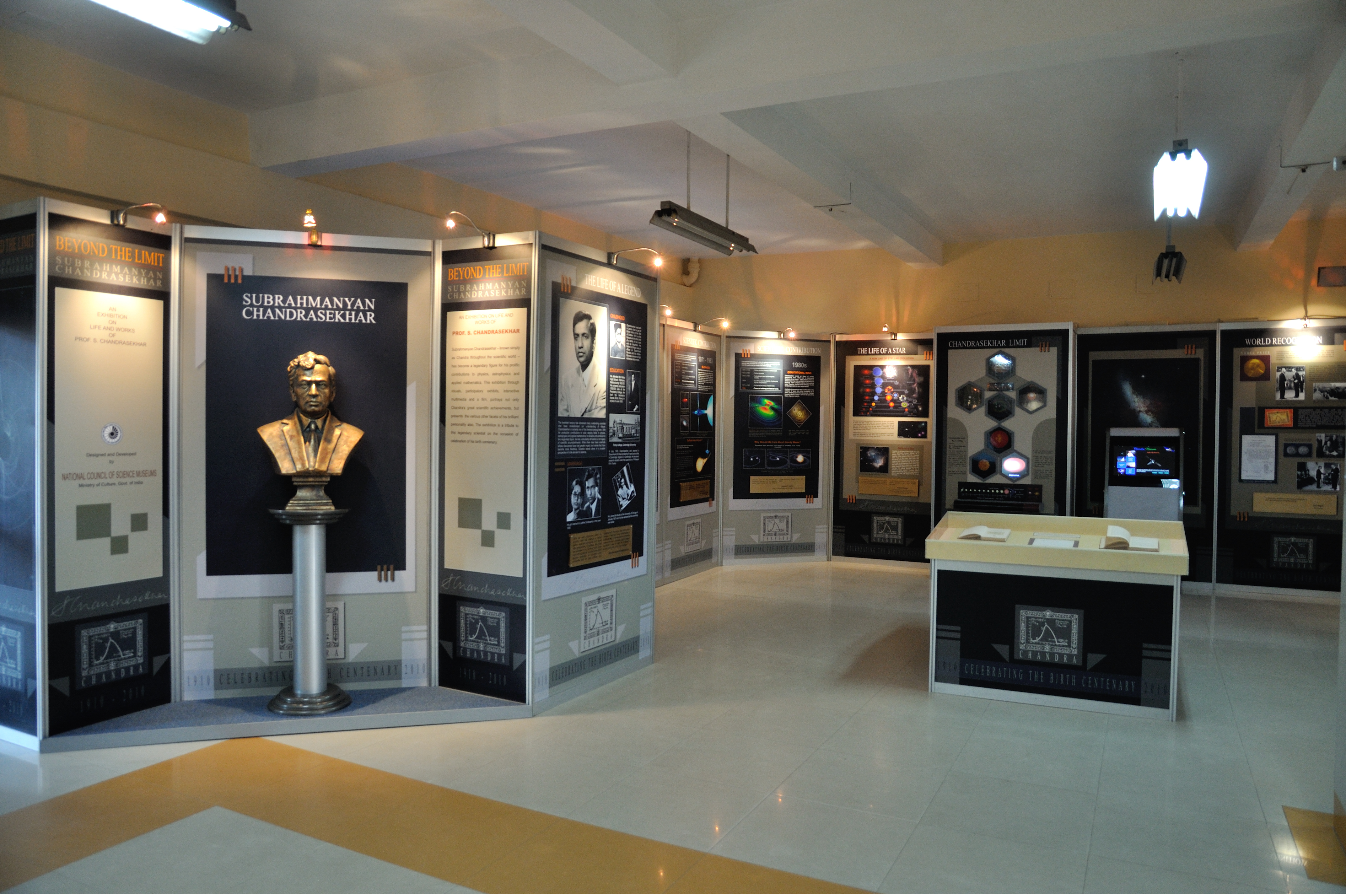 Photographed in Kolkata